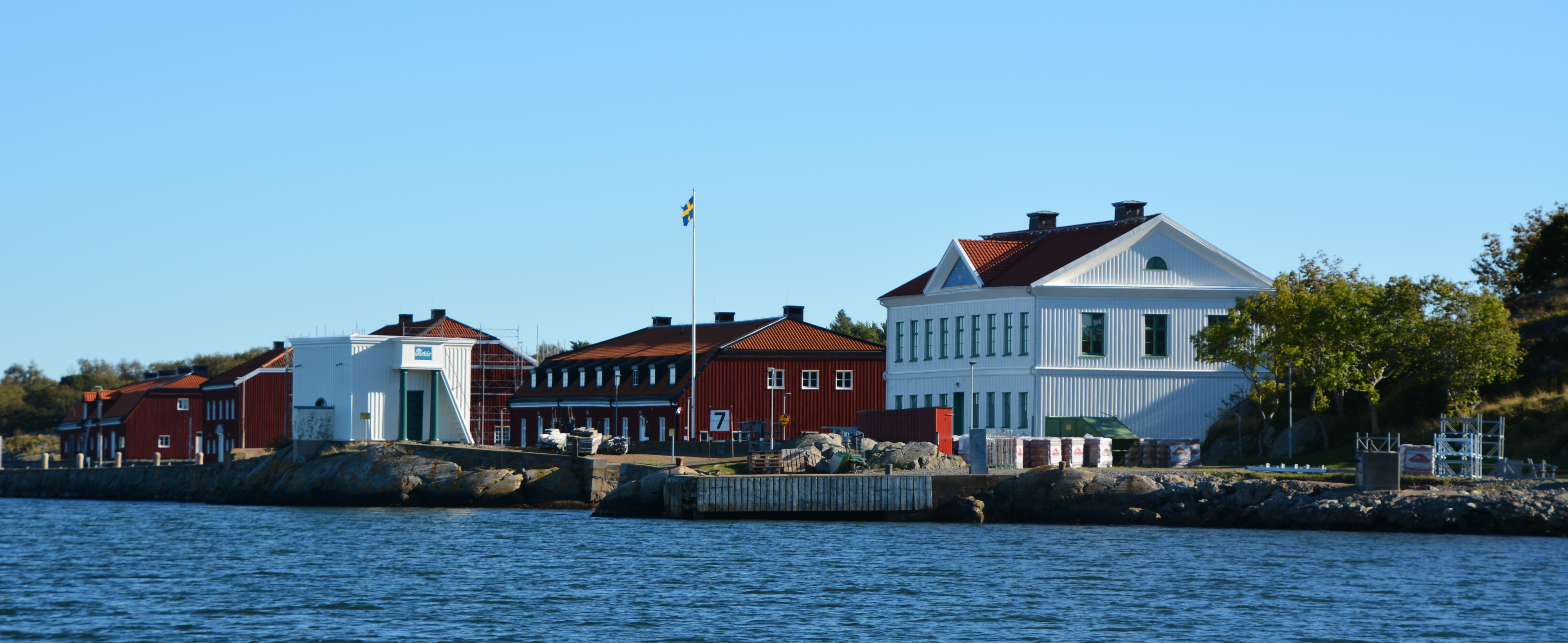 Känsö karantänsstation